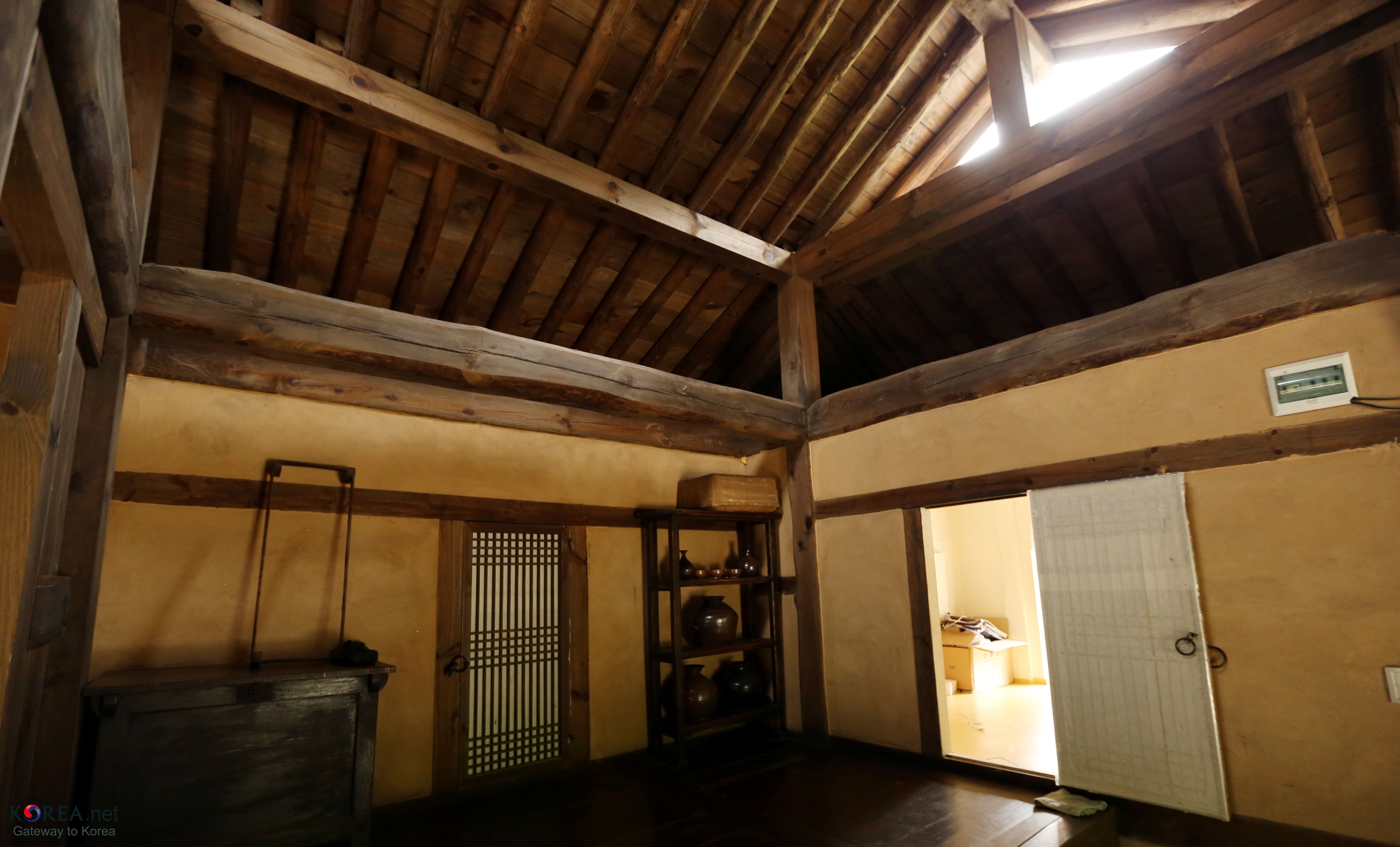 Jeongseon Traditional Market The Arari Village June 7, 2014 Jeongseon-gun, Gangwon-do Ministry of Culture, Sports and Tourism Korean Culture and Information Service ( Official Photographer: Jeon Han This official Republic of Korea photograph is licensed as free content, so while restrictions such as personality or privacy rights may apply, in general, manipulations are allowed. If you want a photograph without a watermark, you may ask via Flickr e-mail. 팔도장터 관광열차 – 강원도 정선 아리랑시장 정선 아라리 村 2014-06-07 강원도 정선군 문화체육관광부 해외문화홍보원 코리아넷 전한